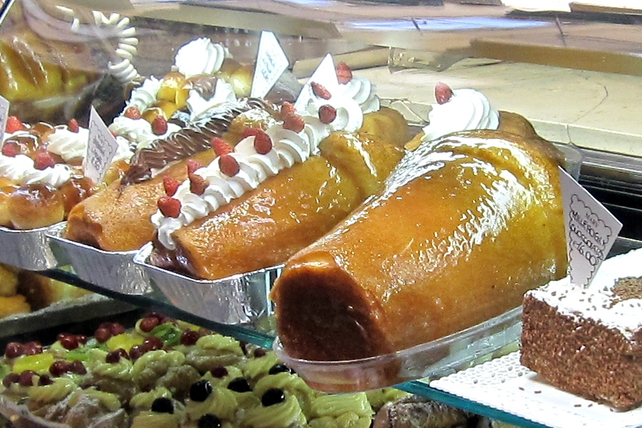 Three neapolitan rum baba, a small yeast cake saturated in liquor, usually rum, and sometimes filled with whipped cream or pastry cream.